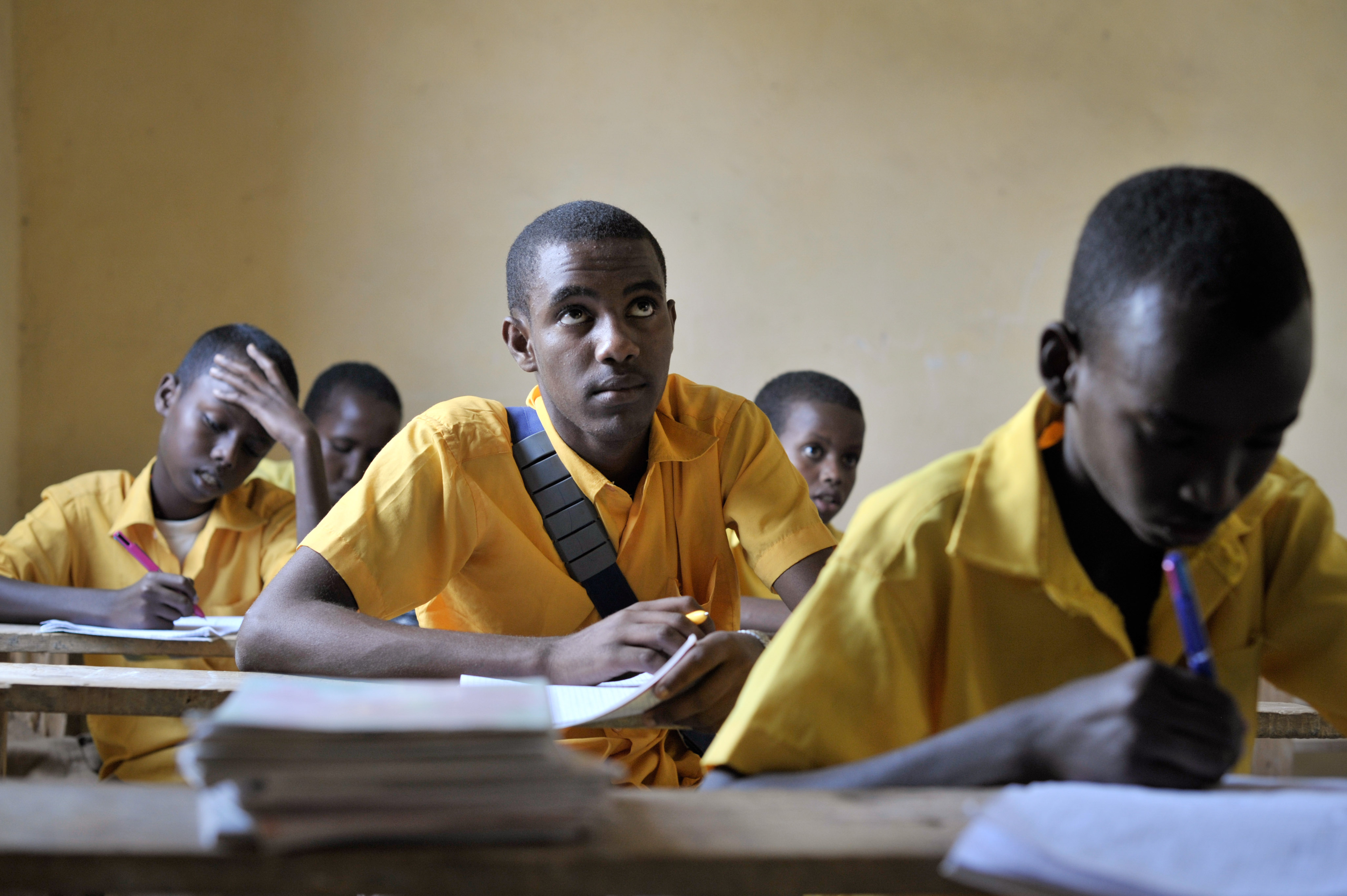 Students sit in a class at as school run by the Abdi Hawa Center in the Afgoye corridor of Somalia on September 25. Dr. Hawa, an internationally recognized humanitarian, established the Hawa Abdi Center in 1983, and has catered for tens of thousands over the years displaced by civil war in Somalia. The center now contains an IDP camp, a school, and a hospital. AU UN IST PHOTO / Tobin Jones